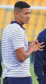 Tyias Browning with Everton FC